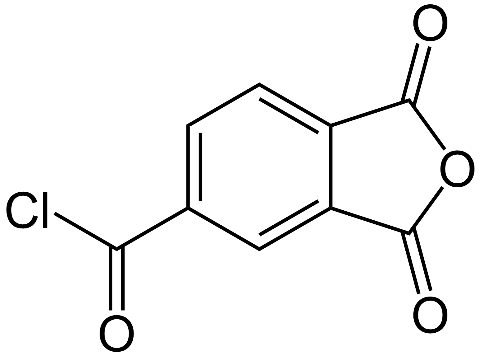 Structure of trimellitic acid chloride